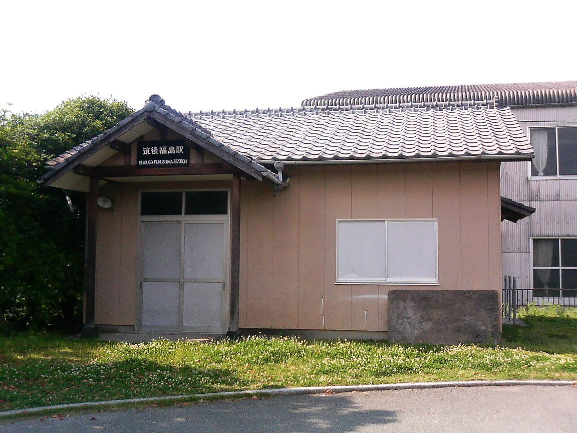 The ruin of Chikugo-Fukushima Station, Yabe Line.